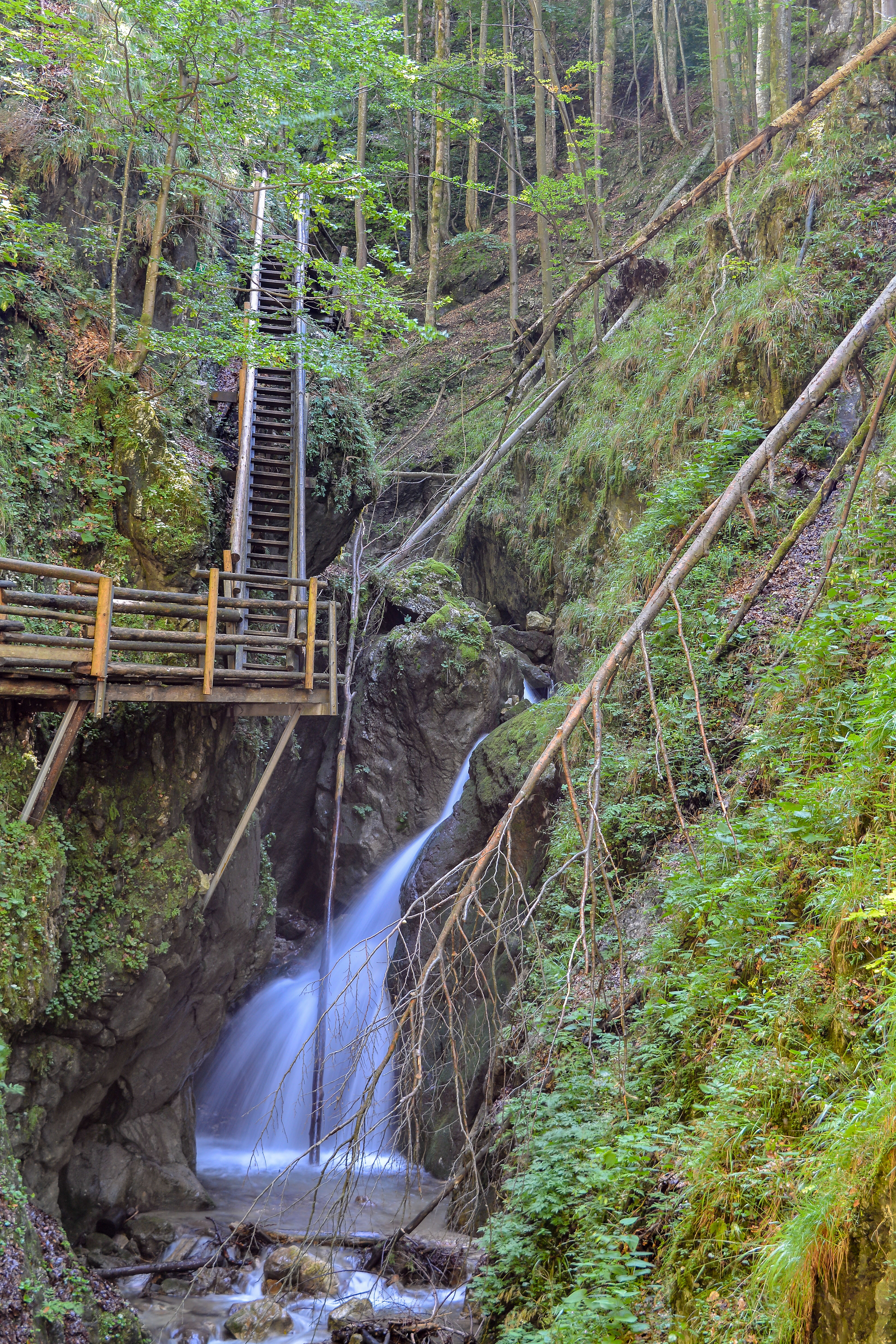 The ravine Dr.-Vogelgesang-Klamm is in the second place among the longest ravines in Austria which can be accessed by walkers. It is named after the medical practitioner Dr. Vogelgesang who was the initiator of erection of the pedestrian bridges trough the ravine. This media shows the natural monument in Upper Austria with the ID nd181.